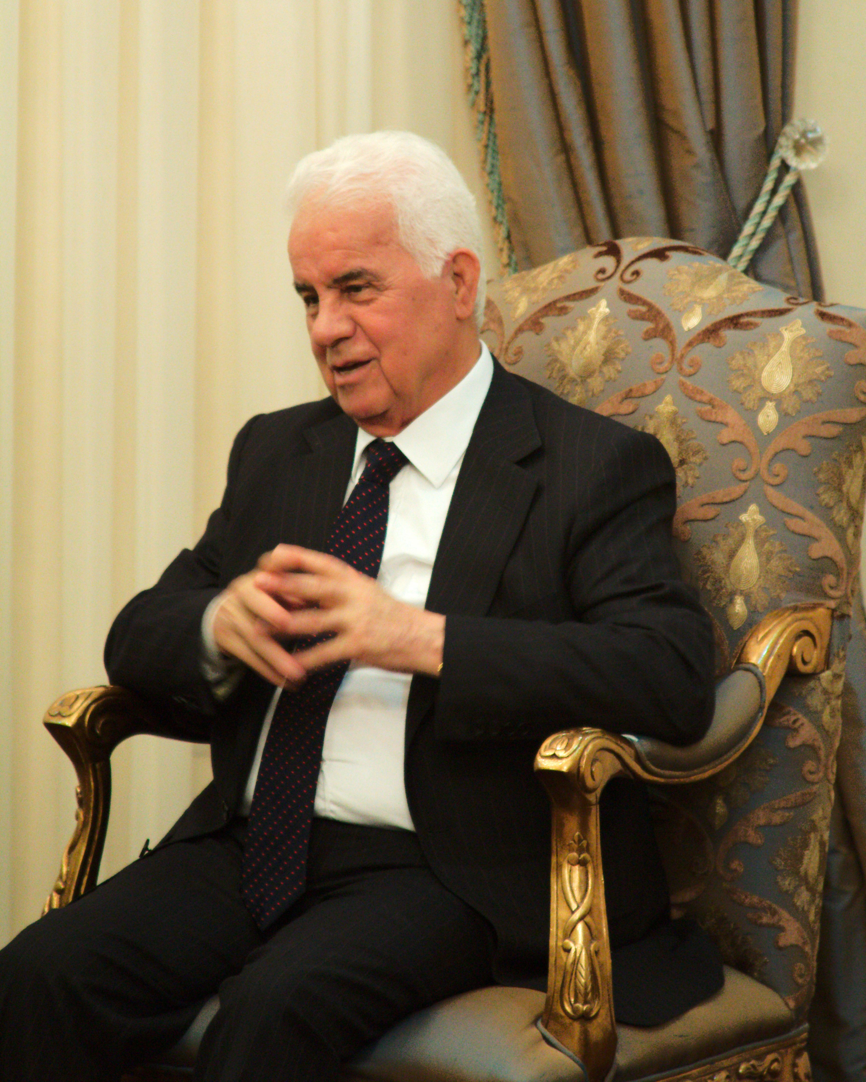 Derviş Eroğlu